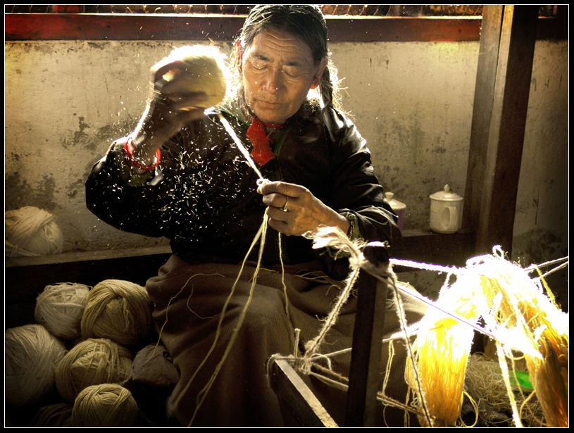 Tibetan carpet factory. sometimes It's difficult to keep the eyes open while spinning wool.